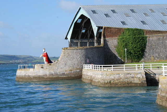 Ancient Dockyard This was the first Dockyard built at Devonport.At a point just west of Mutton Cove,which used to be called Point Forward.It was built between 1690-1698. Some years ago a new roof was installed to protect it.